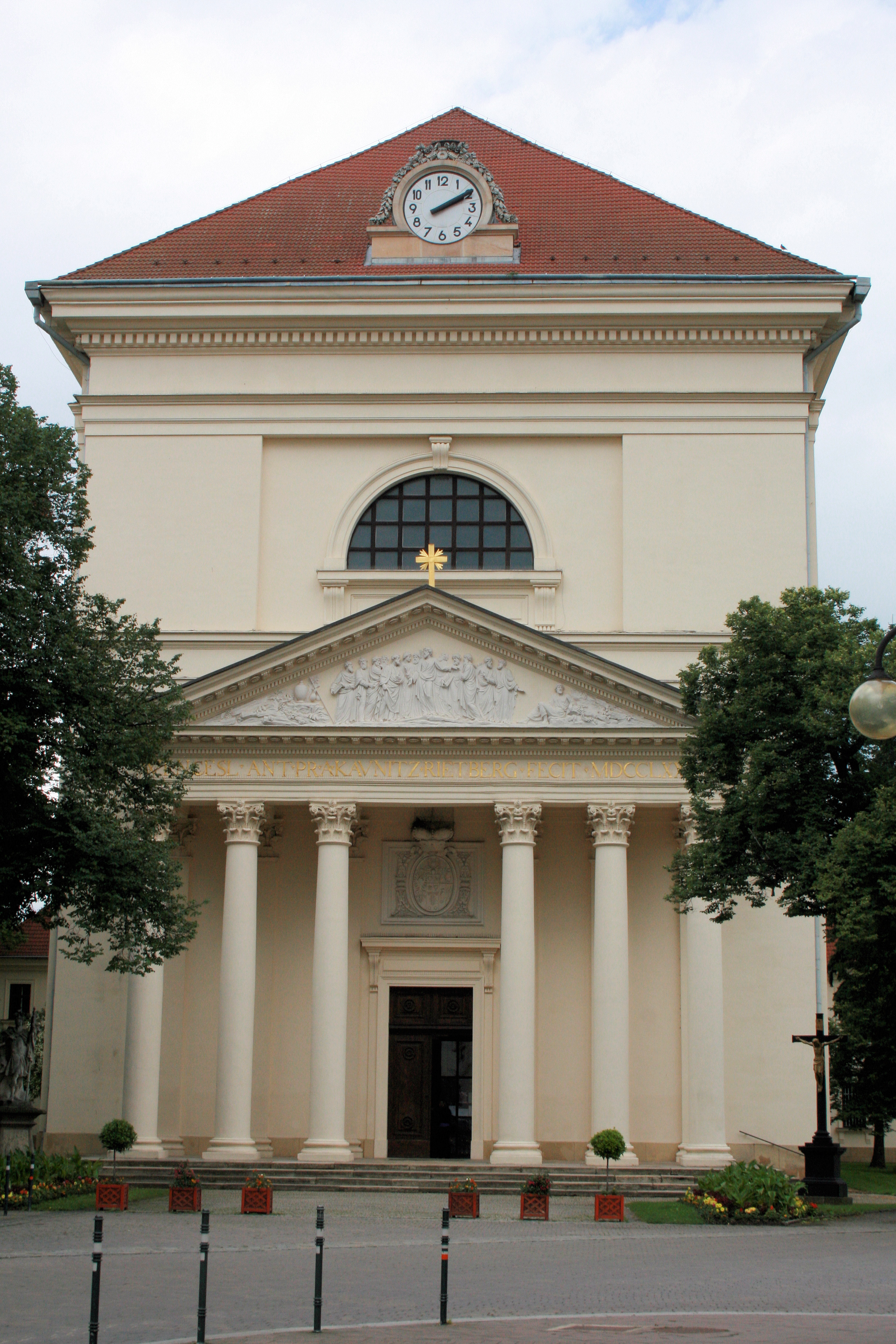 Church of the Resurrection of the Lord, Slavkov u Brna (Austerlitz), Czech Republic.